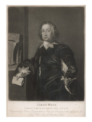 James West, 18th cent. British politician and antiquary.